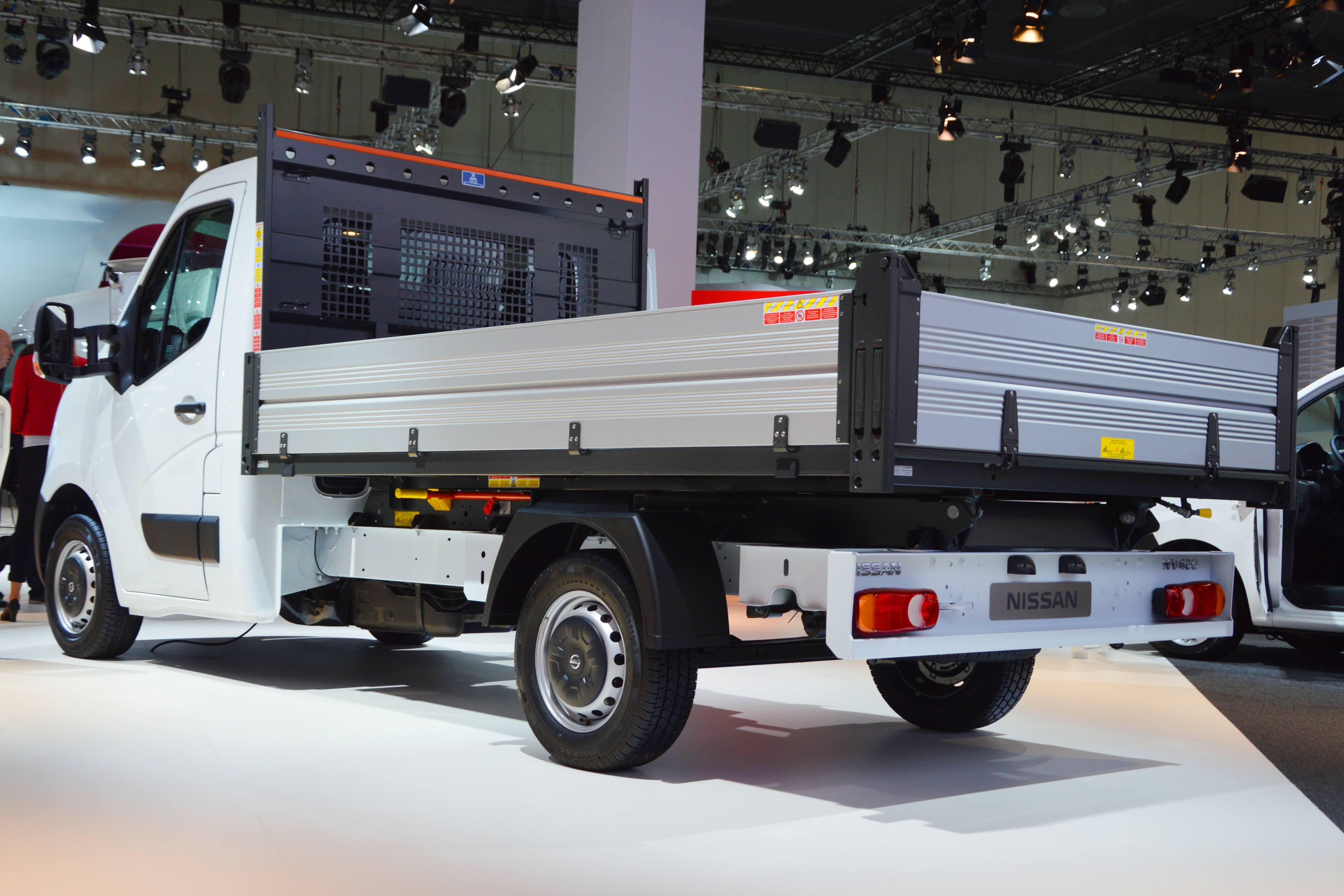 Nissan NV400 3.5 to. Engine: 2.3 dCi / 2.299 ccm. Power: 92 kW. Photo taken at exhibition IAA 2014 in Hanover, Germany